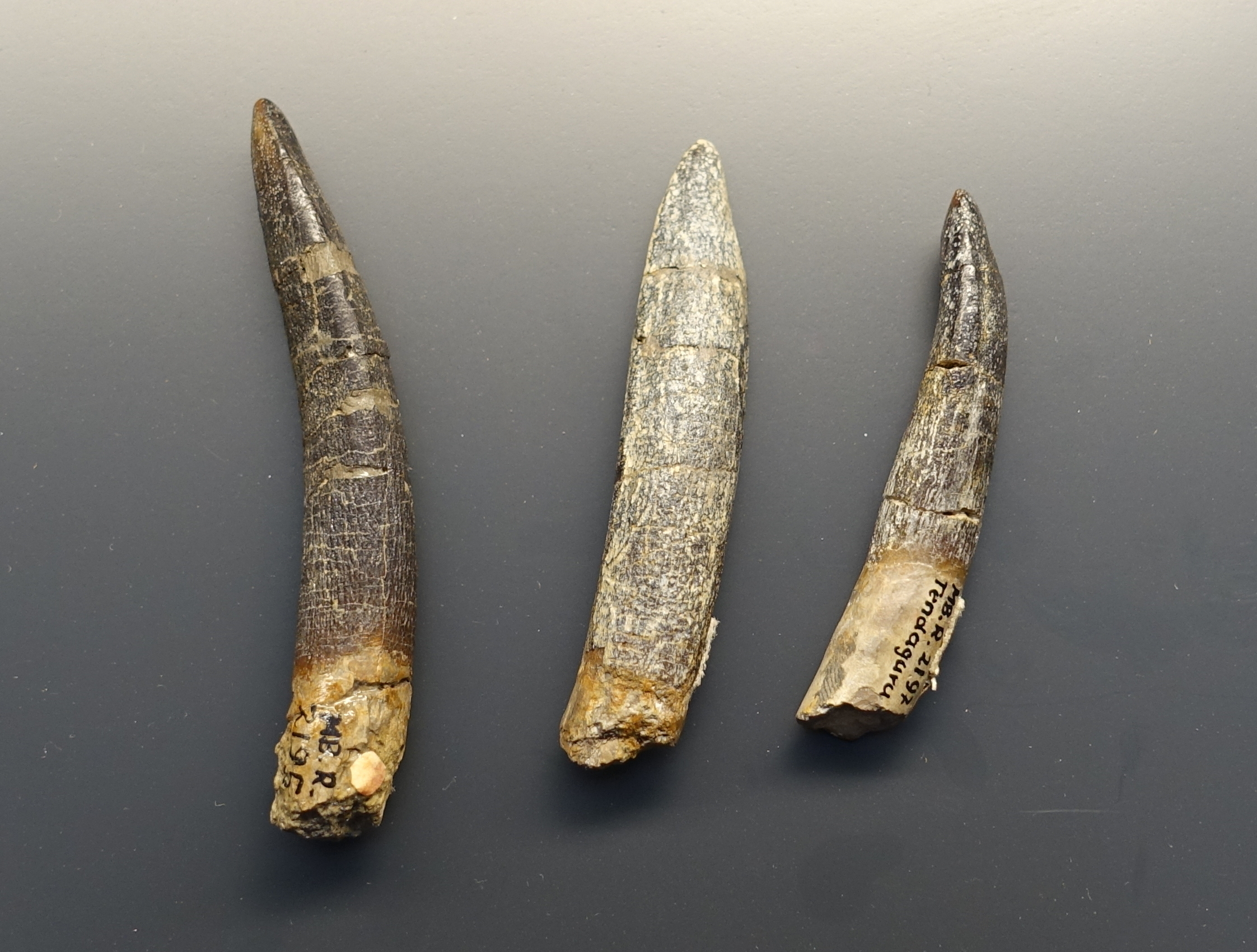 Exhibit in Museum für Naturkunde, Berlin, Germany.